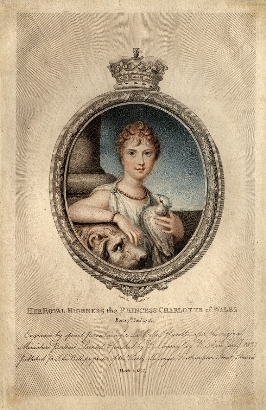 Princess Charlotte Augustua of Wales in 1807.